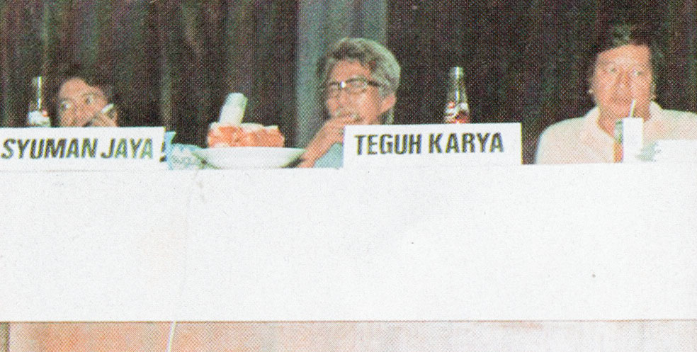 Sjumandjaja and Teguh Karya during discussion session at the 1982 Indonesian Film Festival in Jakarta